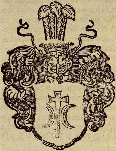 Ostoja according to Szymon Okolski